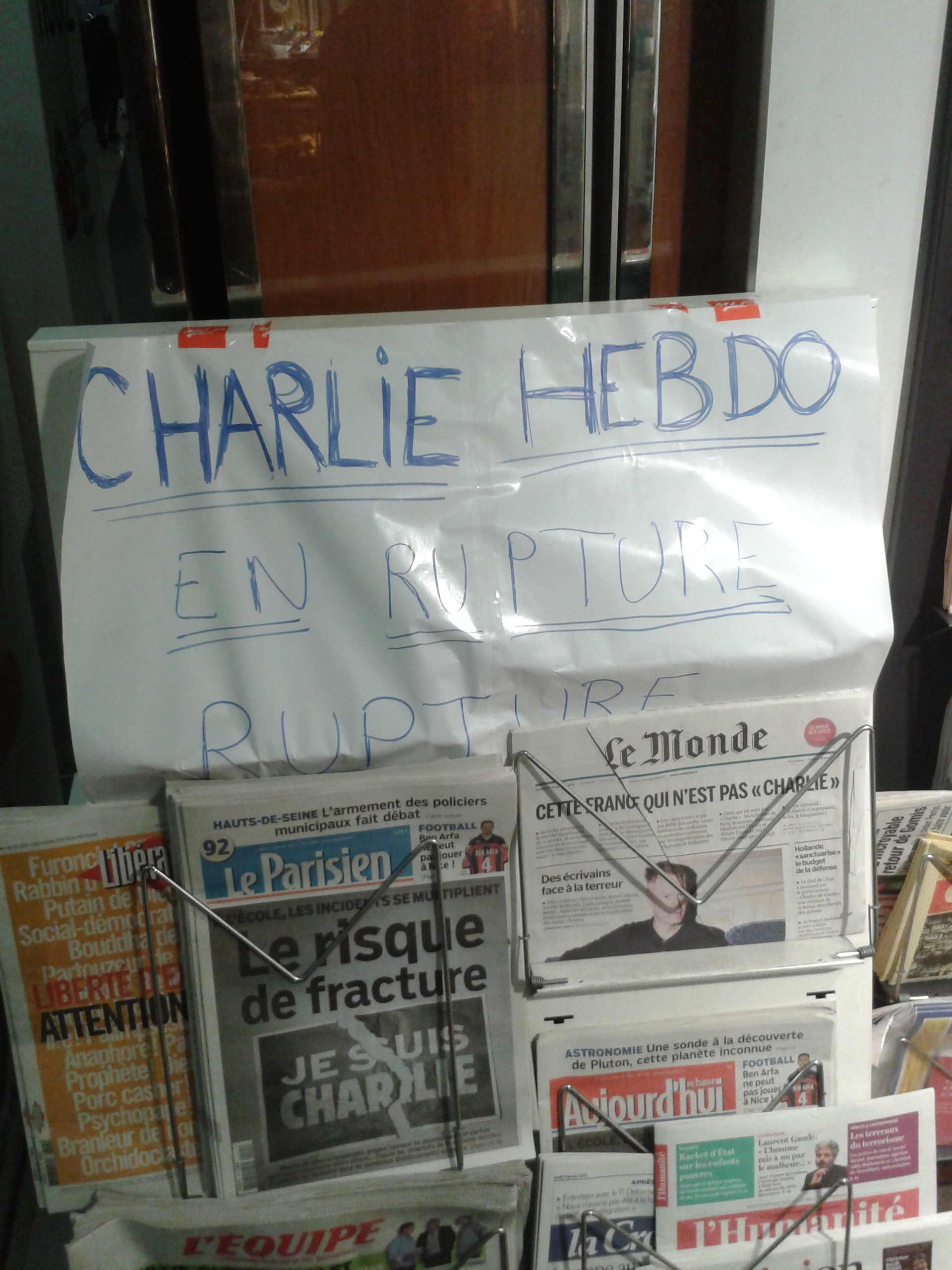 Handwritten sign on a newspaper stand in Île-de-France, stating that Charlie Hebdo issue 1178 is out of stock.